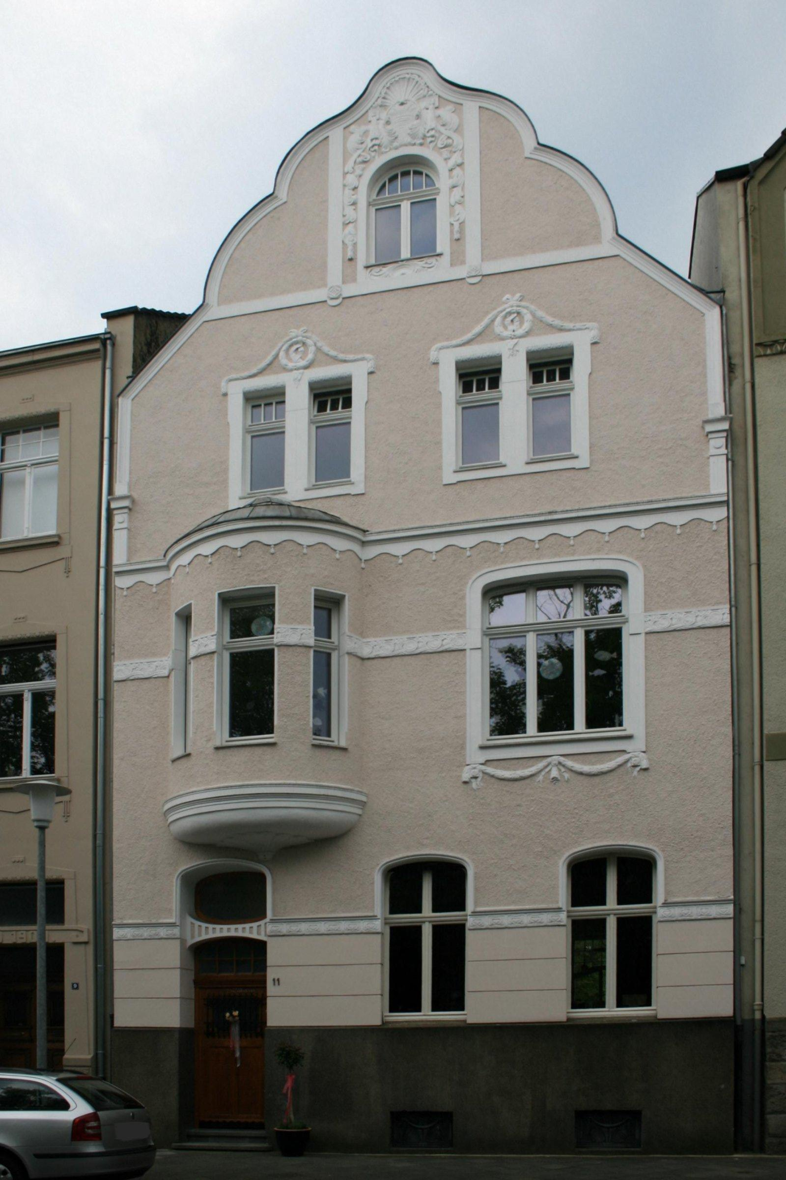 Cultural heritage monument No. B 138 in Mönchengladbach